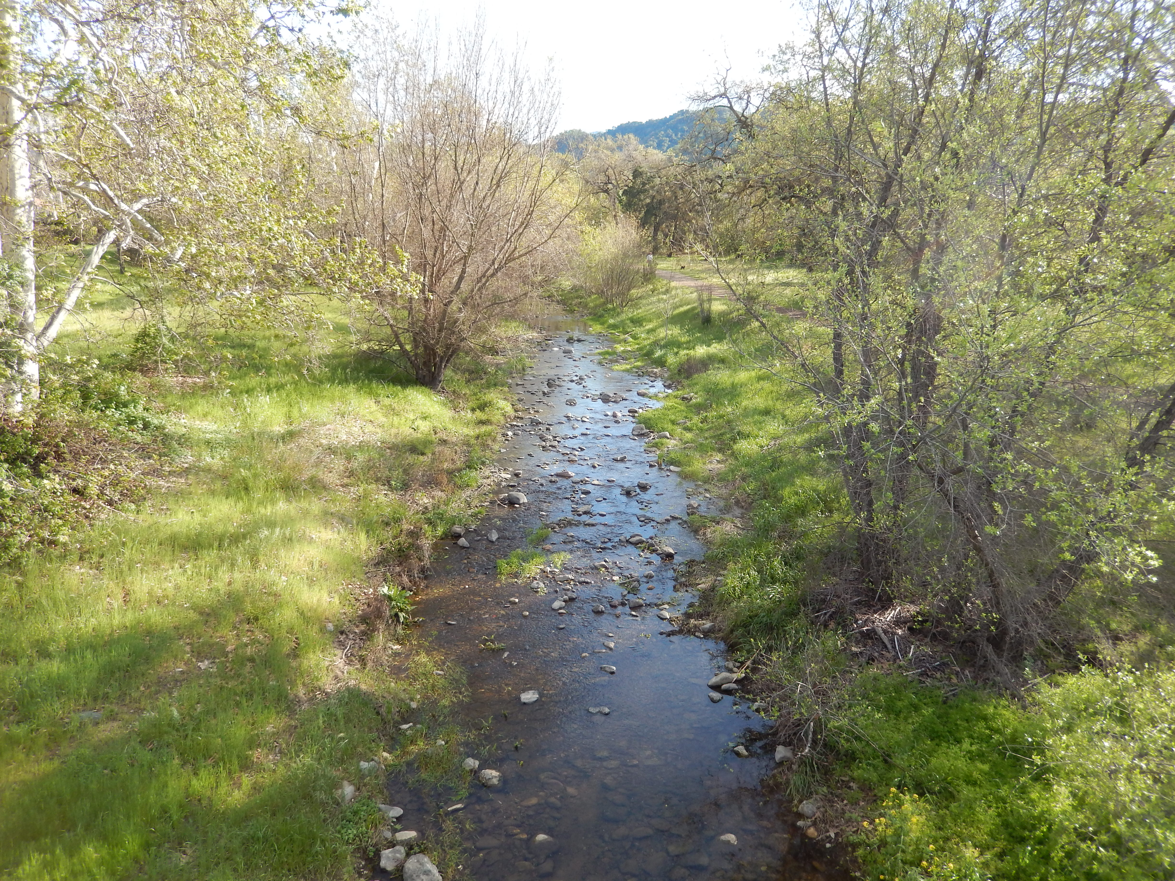 View of Cañada Garcia Creek near Oak Glen Avenue in Morgan Hill, California.